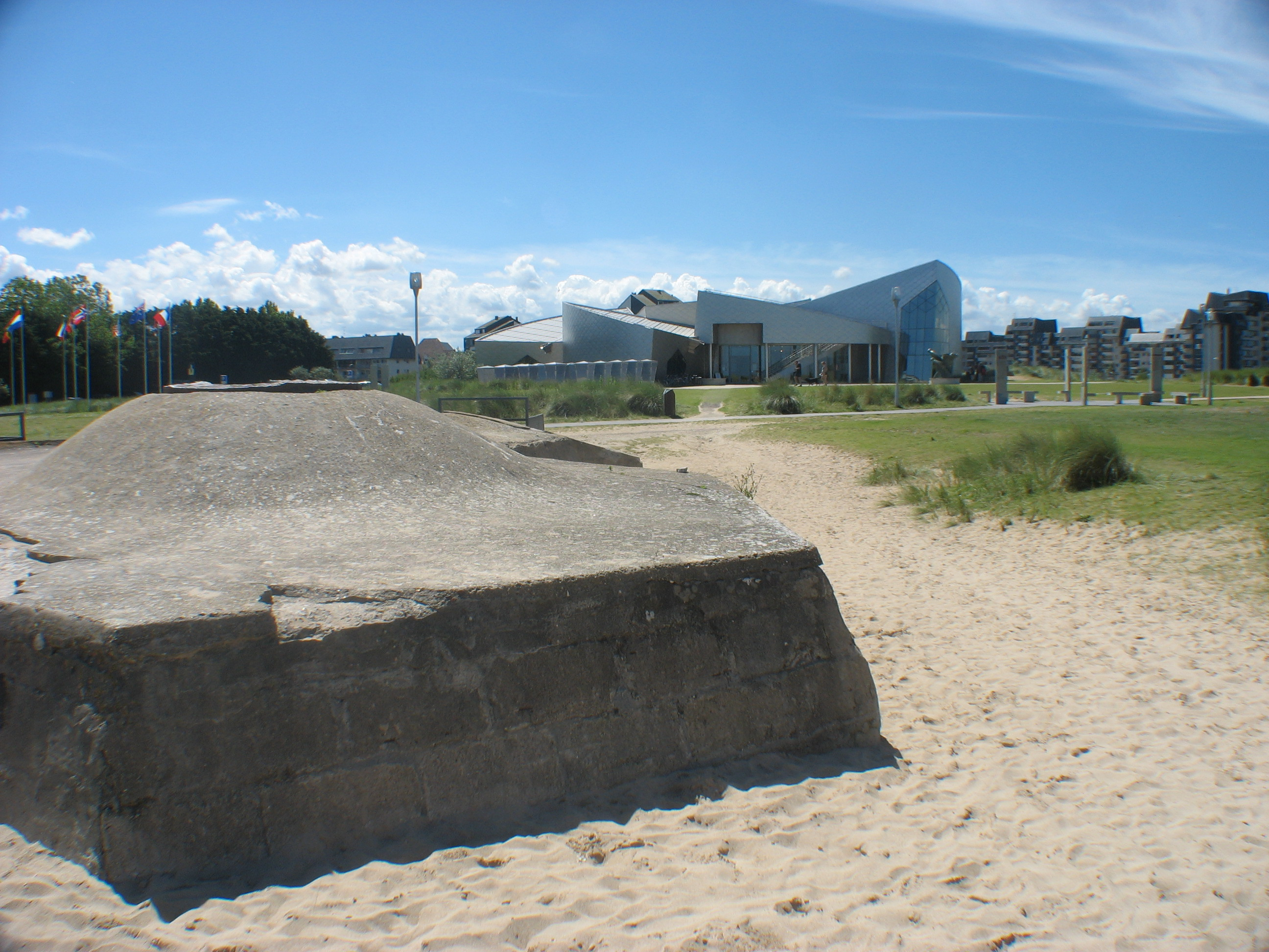 Canadian Part of Juno Beach and (background) Juno Beach Centre, Courseulles-sur-Mer, France.